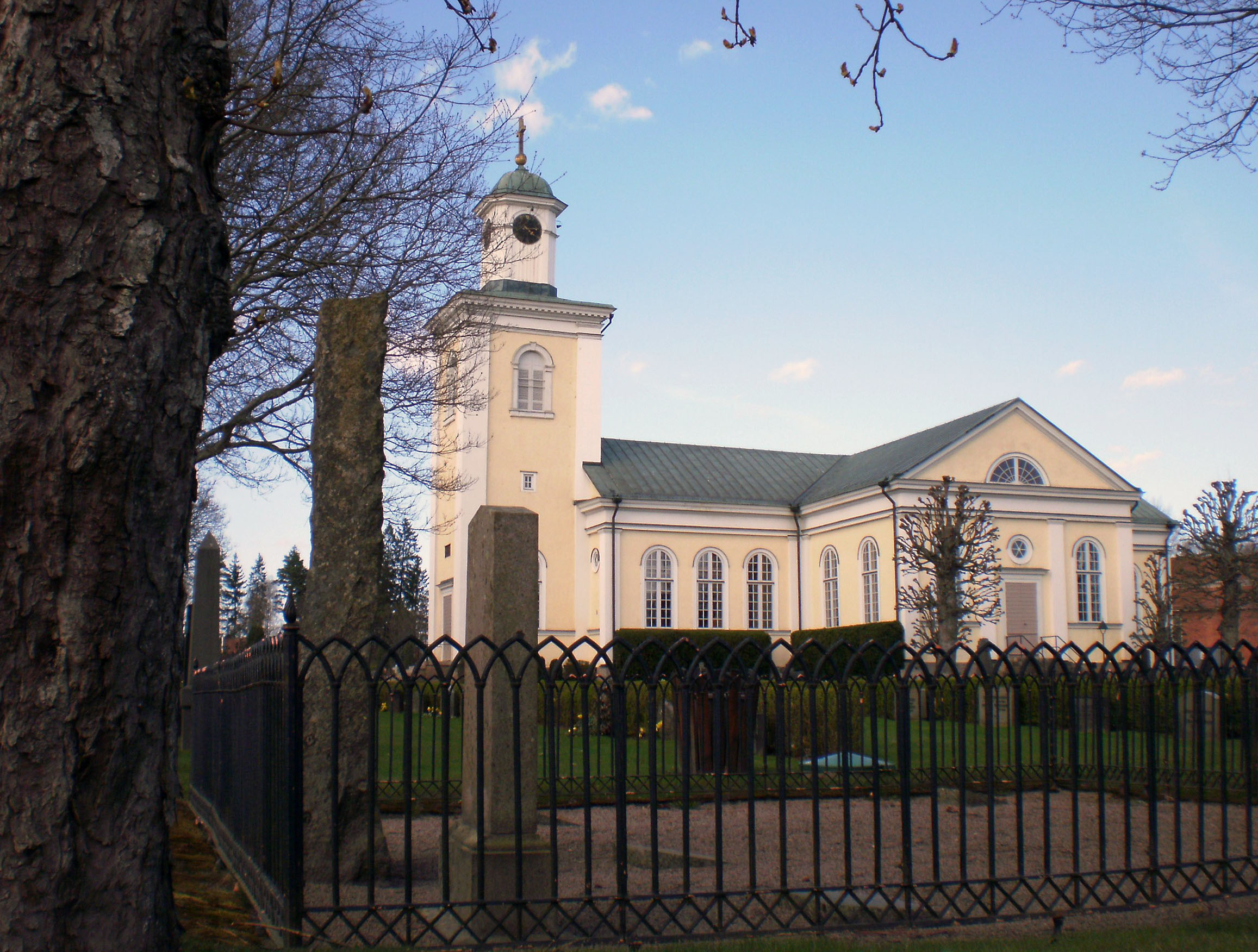 Hovmantorp Church.The church is a cruciform church was built of wood 1845-1847 in neoclassical style designed by architect Theodor Edberg. The church was inaugurated in 1847 by Bishop Christopher Isac Heurlin.